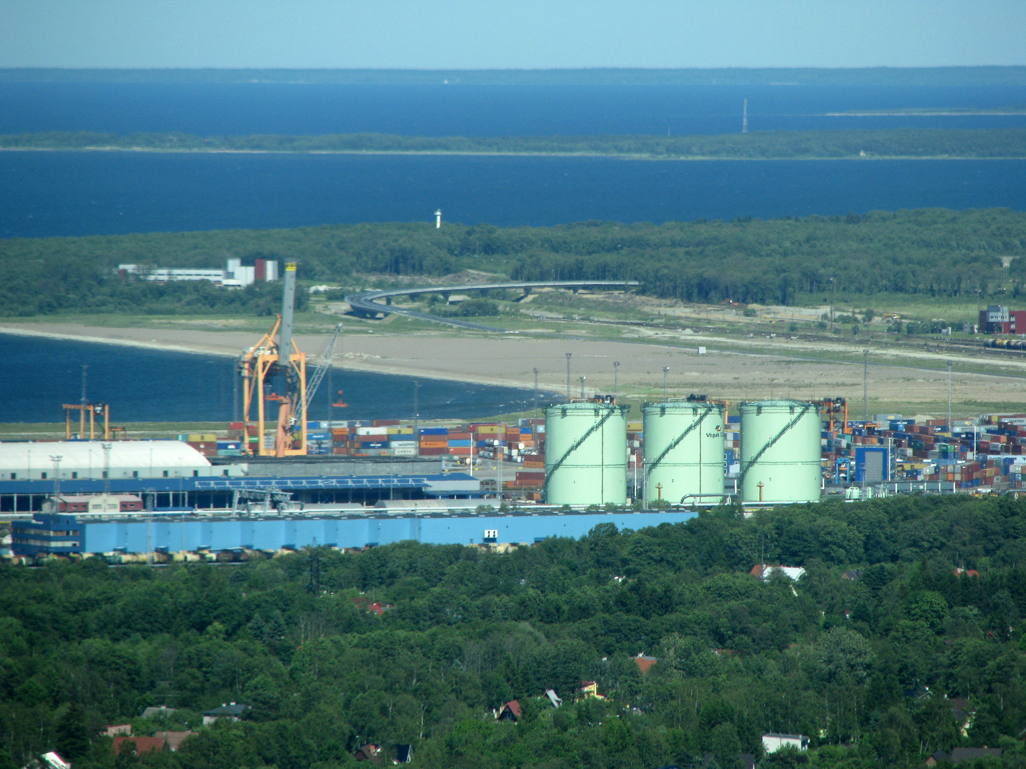 Port of Muuga, oil terminal